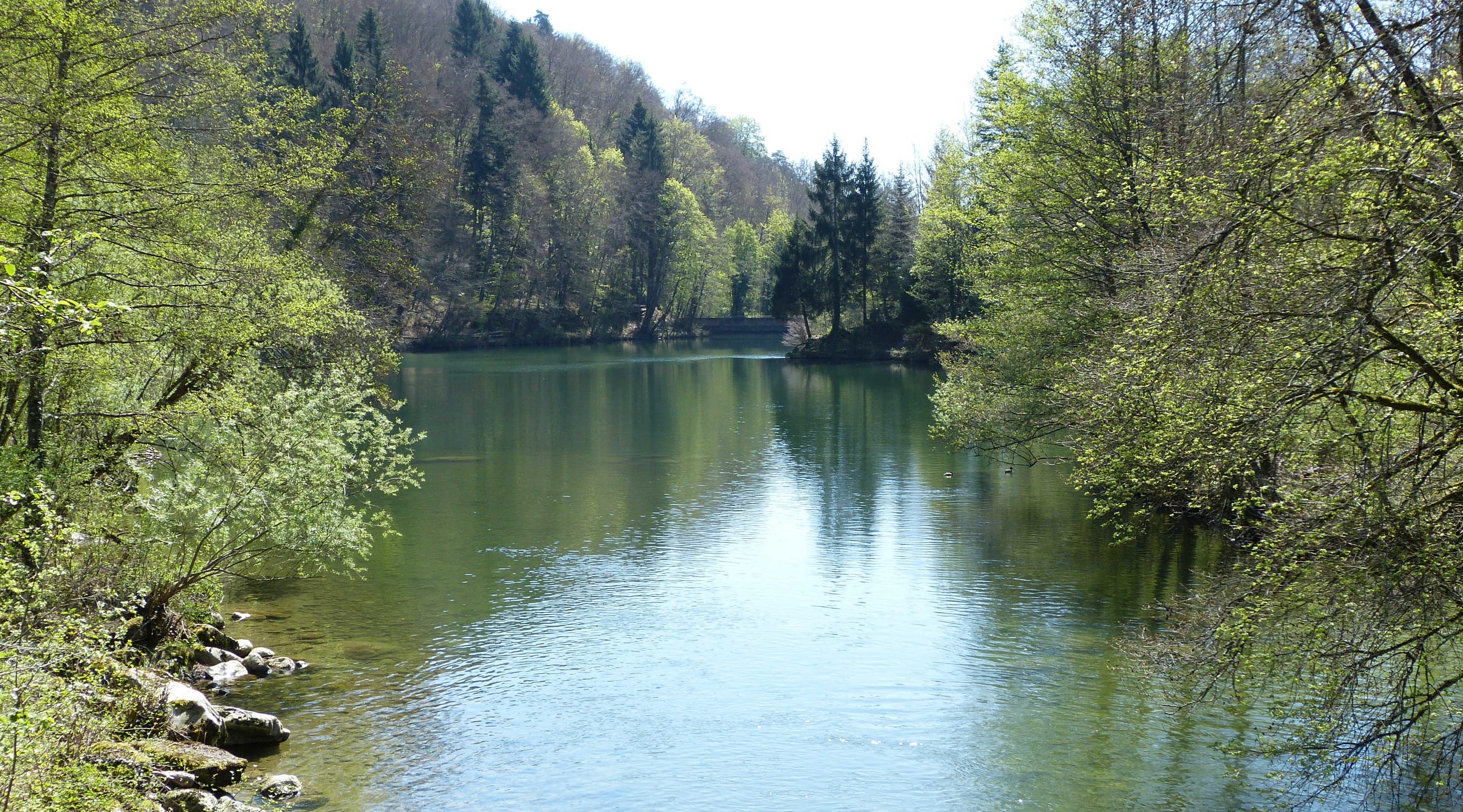 Parc Jura vaudois, Plan-Dessous Lake dammed on the Aubonne River